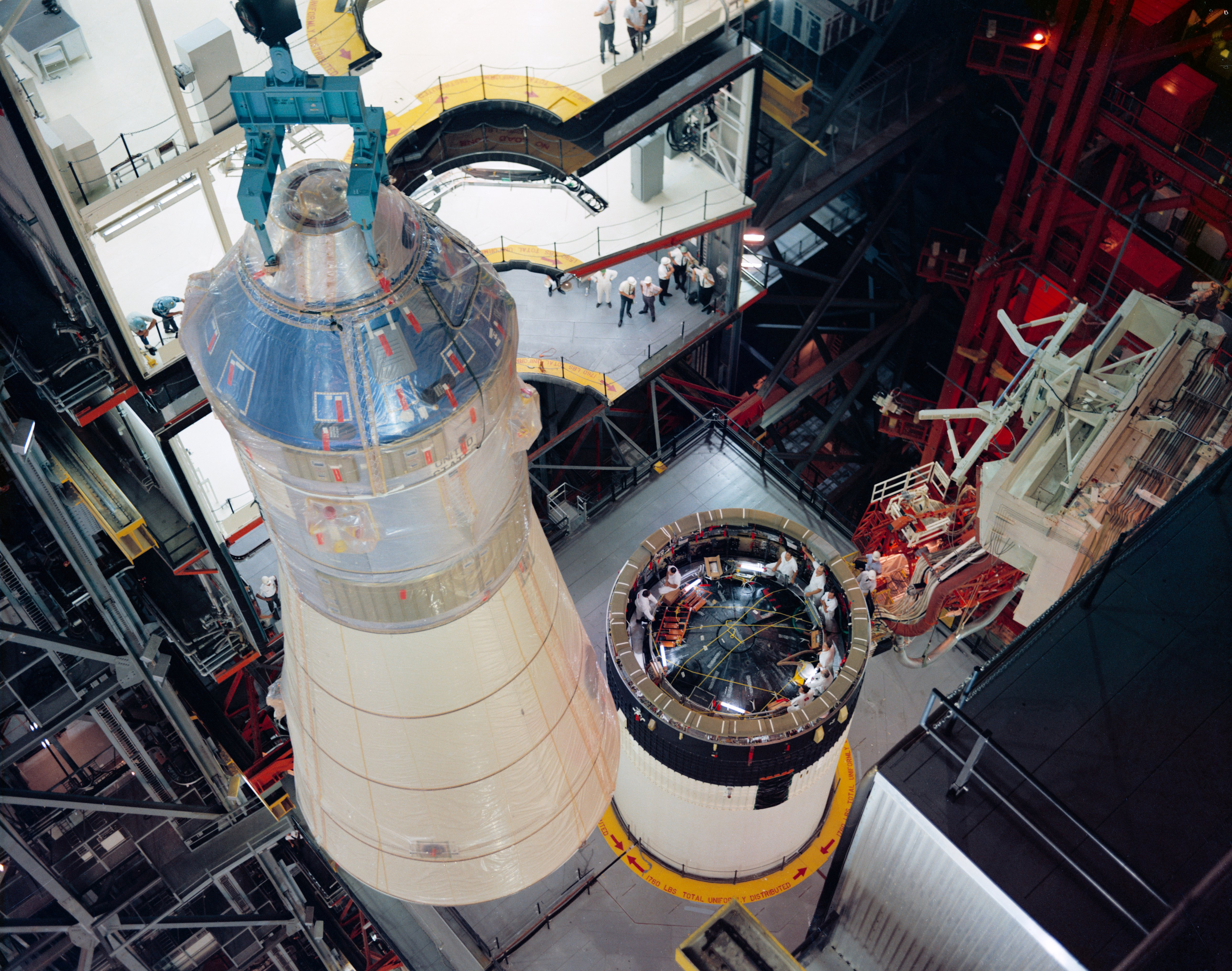 Erection and mating of spacecraft 103 to Launch Vehicle AS-503 in the VAB for the Apollo 8 mission, and rollout to Pad 39A at KSC. Image ID: S68-49478